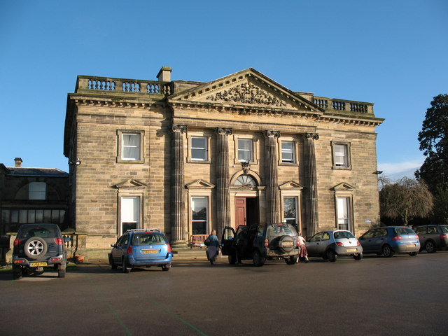 Queen Mary's School Queen Mary's School aka Baldersby Park, was originally built in the Palladian style in 1721 by a young Scottish architect, Colen Campbell. Amongst its previous owners was George Hudson, the 'Railway King' and one time Lord Mayor of York. The building became a convalescent home for injured soldiers in WW1, was used again by the military in WW2 and became Queen Mary's School for girls in 1985.